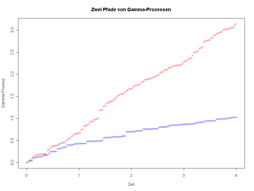 two paths from two different gamma-processes. they are examples auf levy-processes. they are subordinators, ie they are not decreasing.